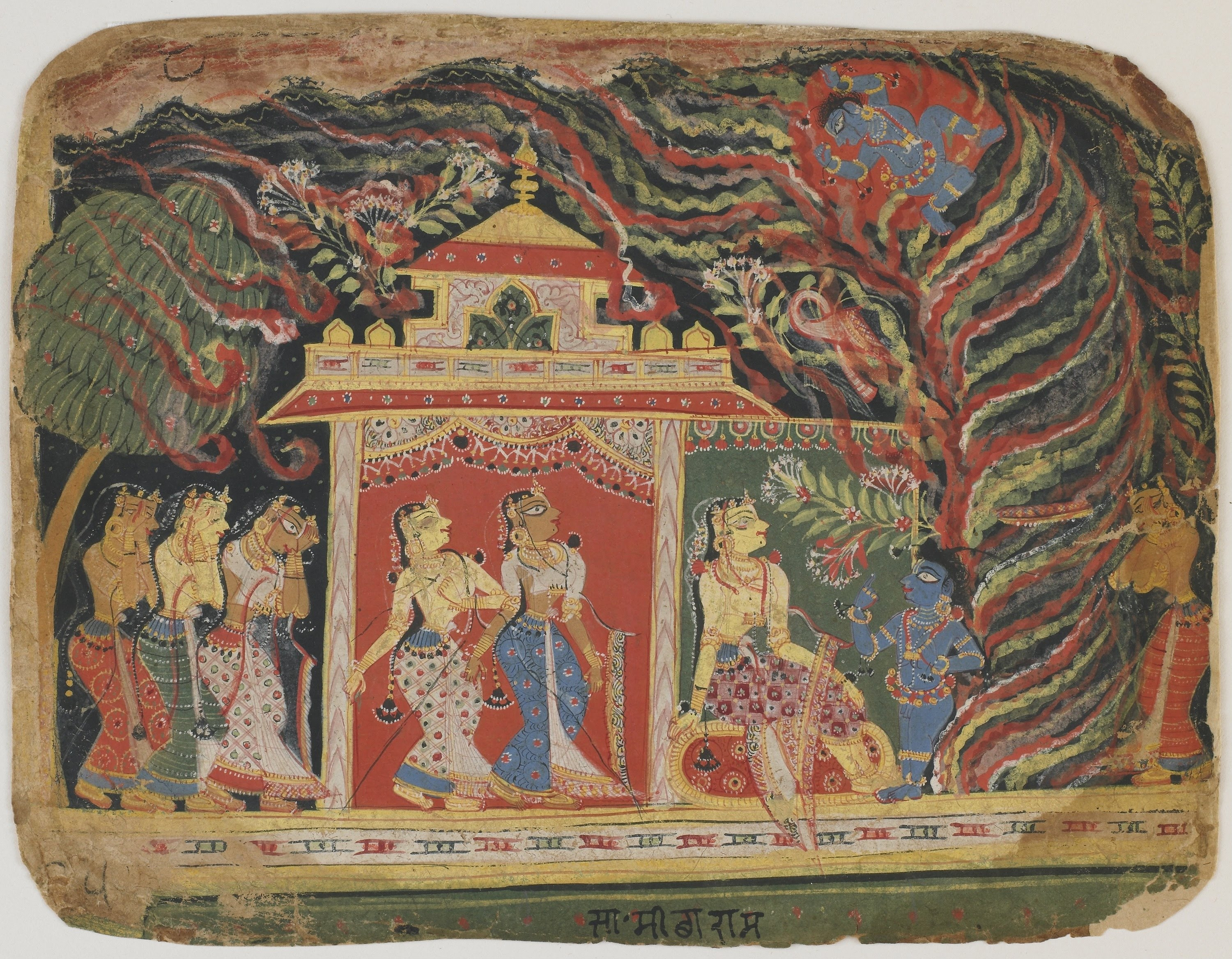 Krishna defeats Trinavarta, the whirlwind demon. While everyone else is blinded by sand whirled about, the divine child emerges victorious.